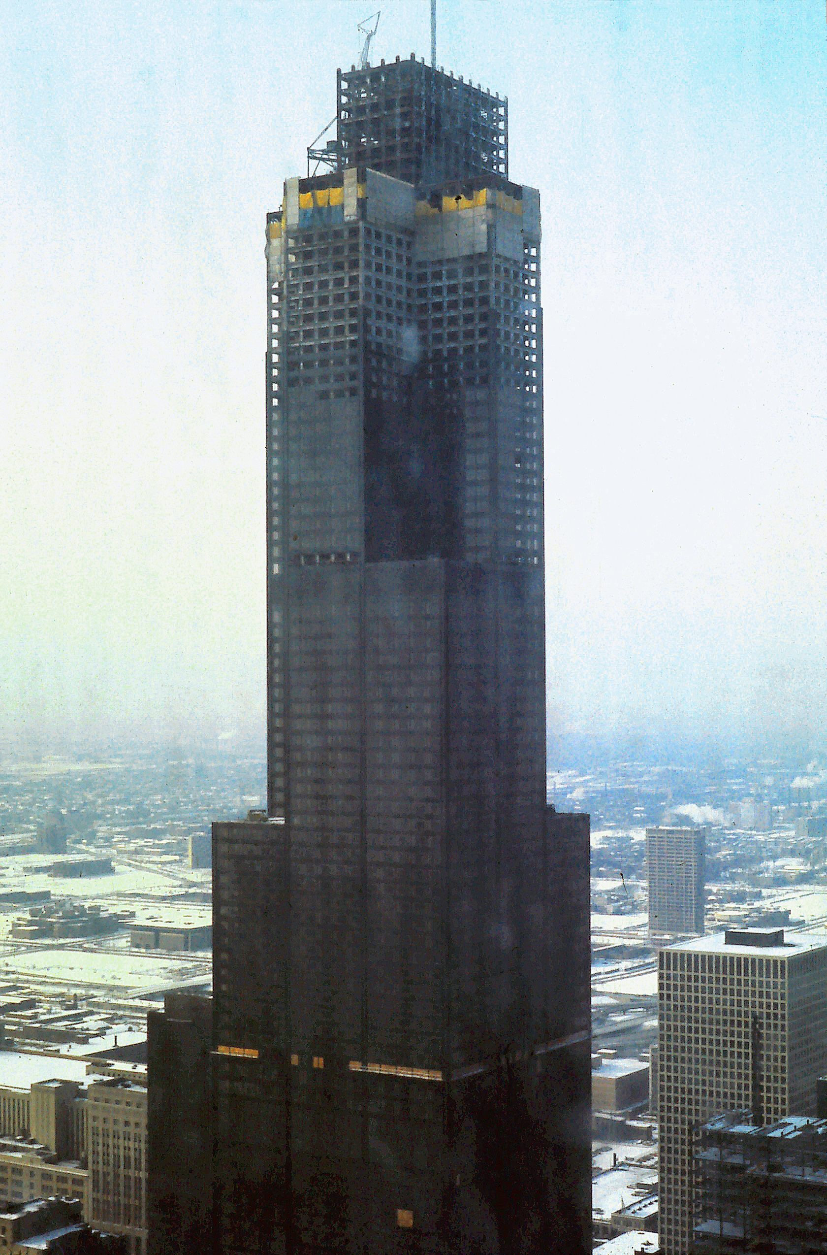 From the old First National Bank Building before the Sears tower was finished.